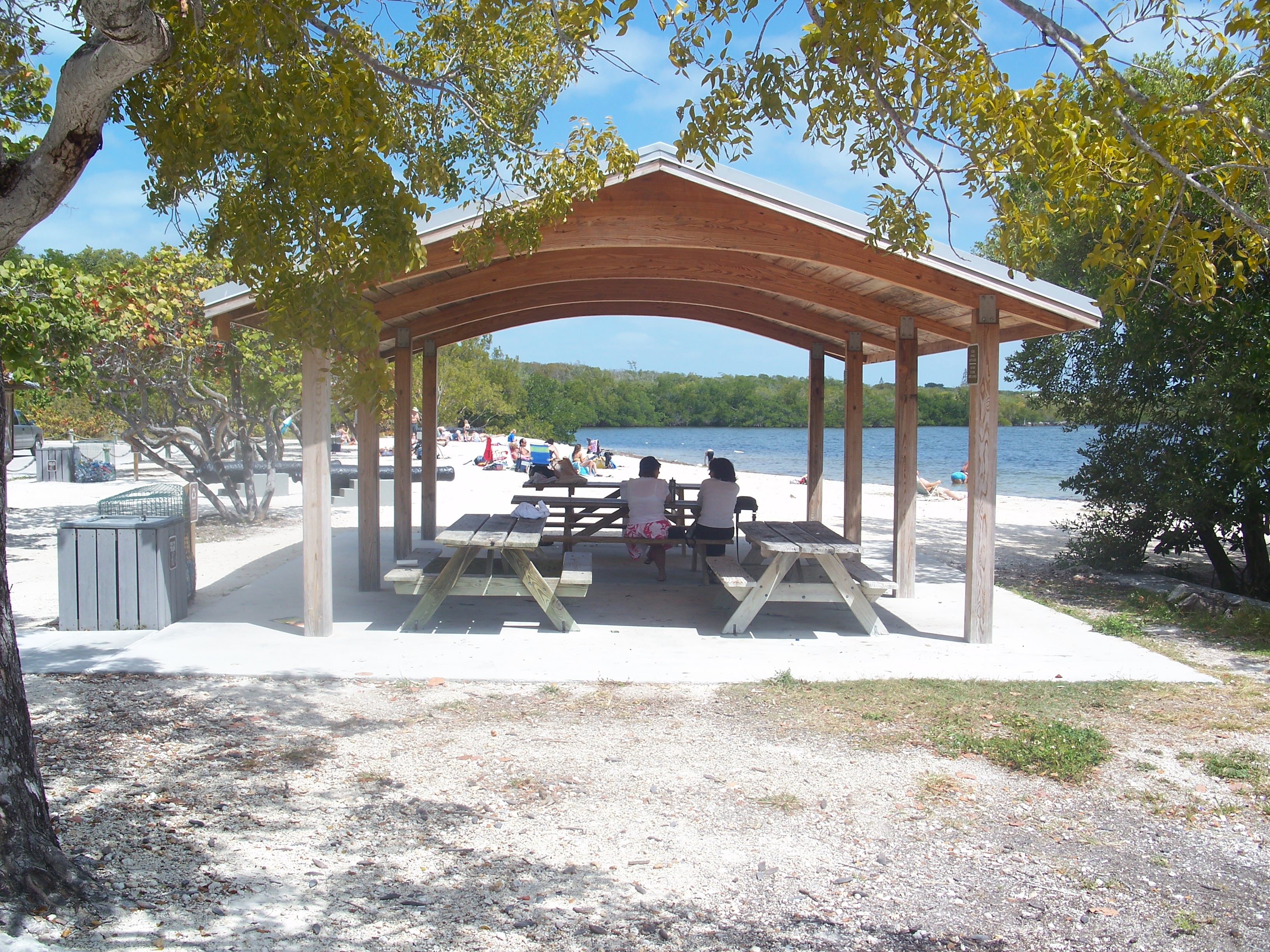 John Pennekamp Coral Reef State Park: Picnic area